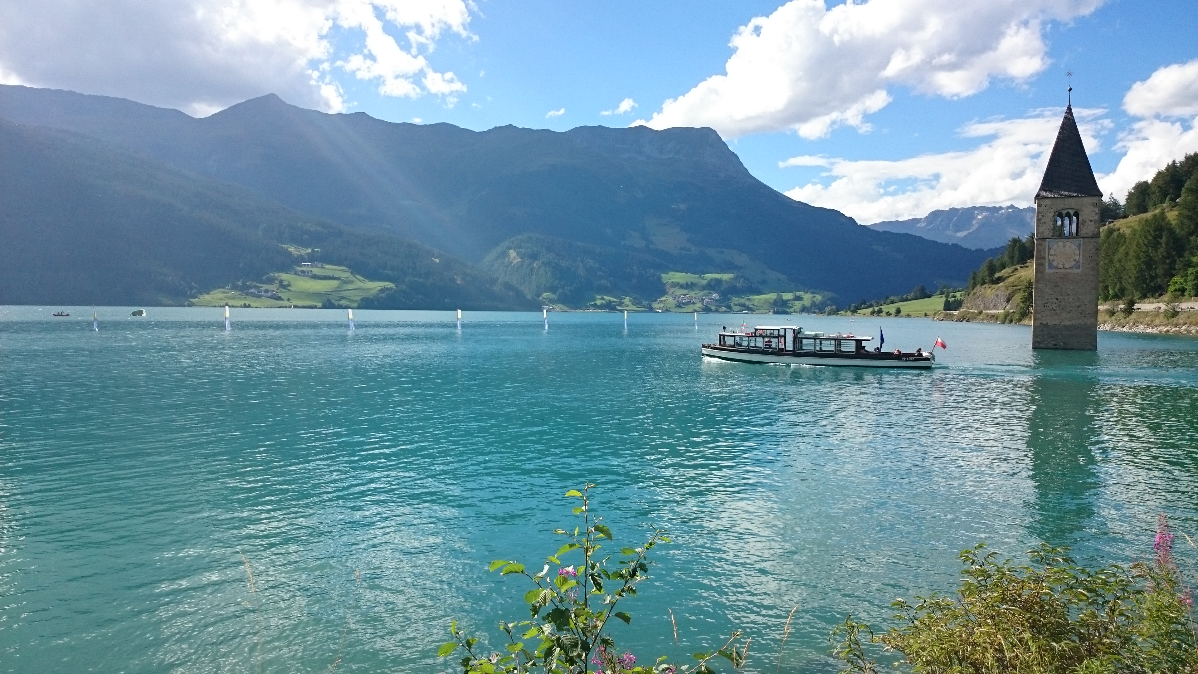 Reschensee with Graun Church tower and boat in South Tyrol, Italy.